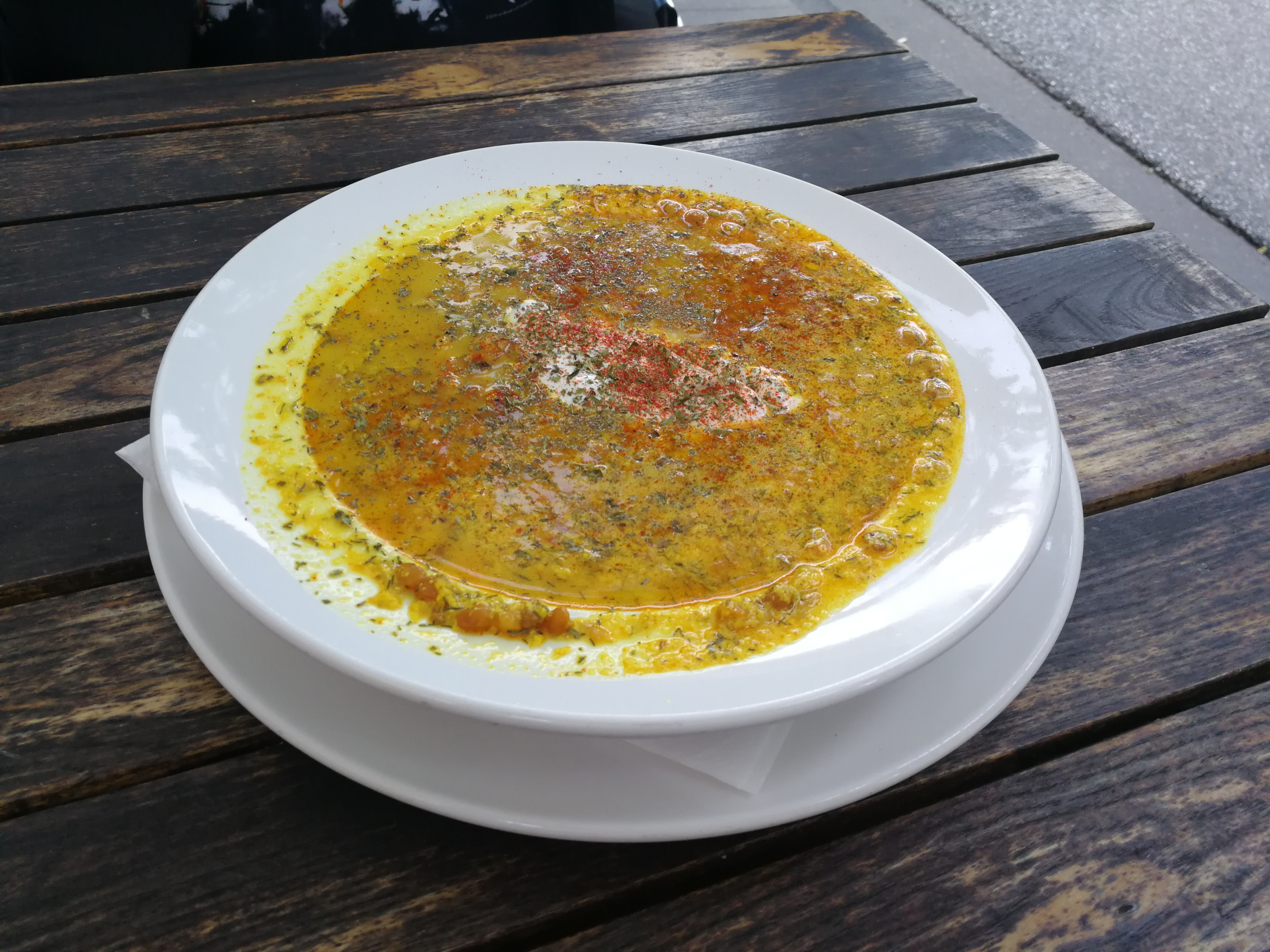 Mushawa/Mashawa. Afghani soup dish with beans, beef or minced beef and dill. As with most stews, ingredients can vary.